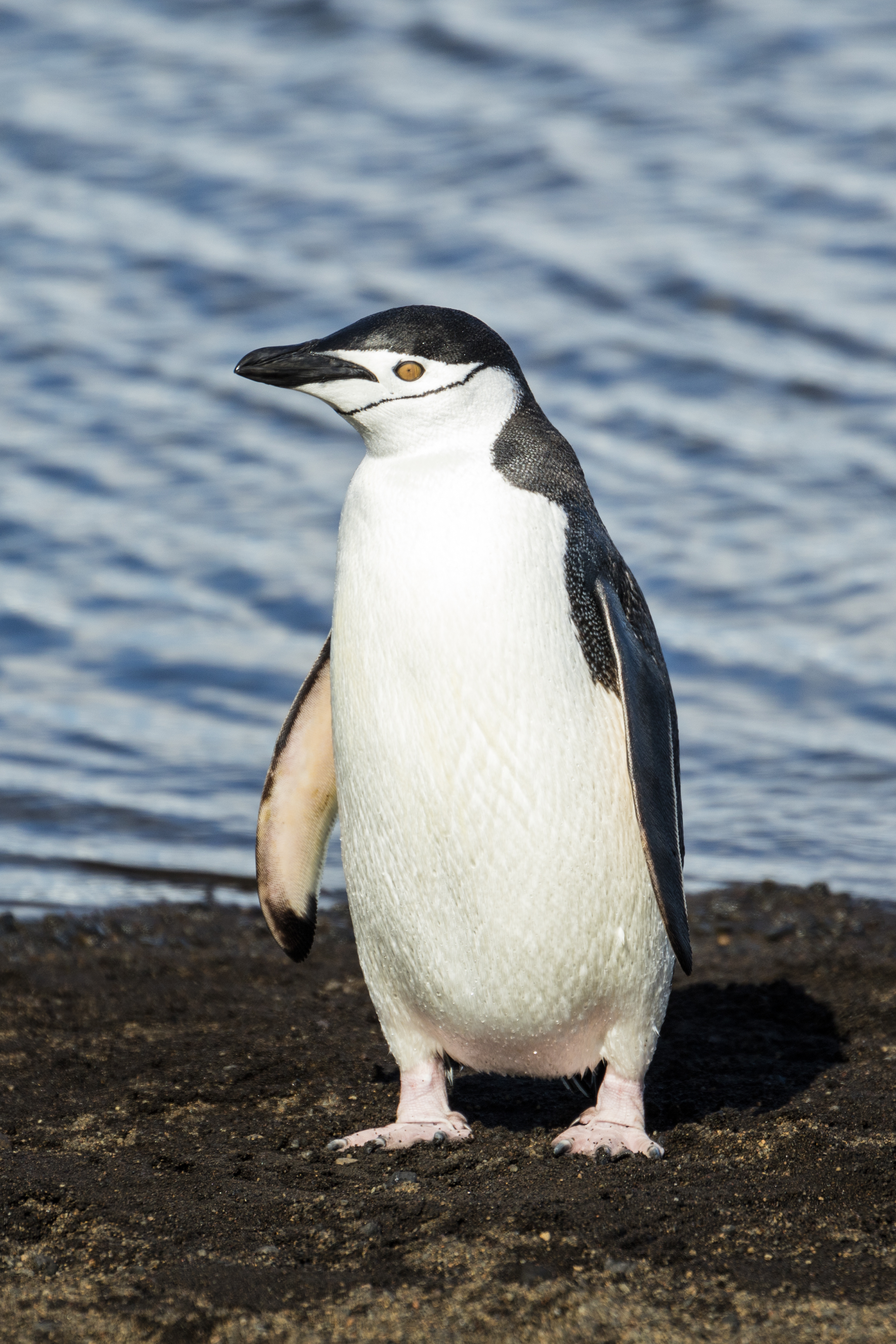 Chinstrap penguin (Pygoscelis antarctica), Deception Island, South Shetland Islands